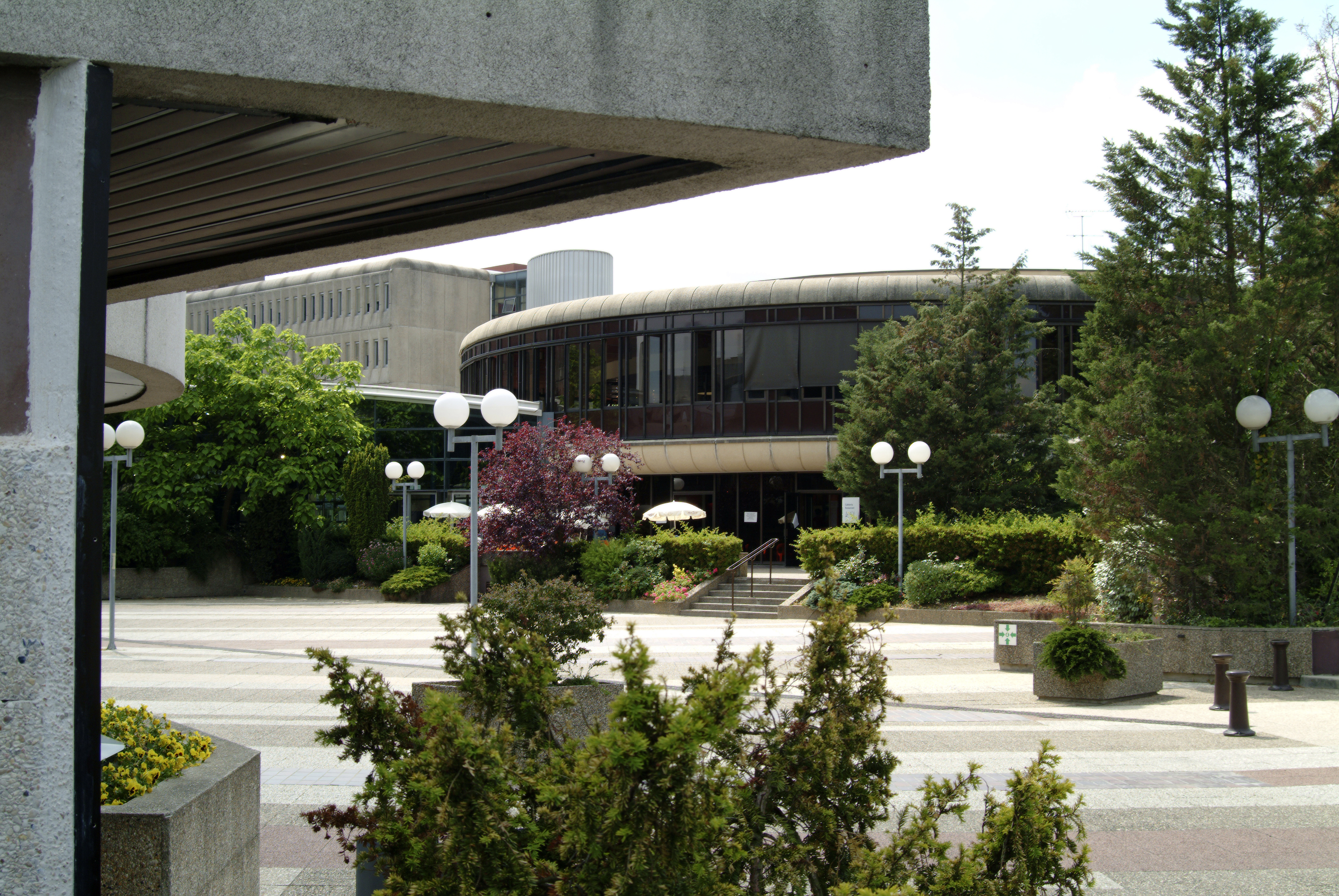 This is a 2017 picture from inside the campus